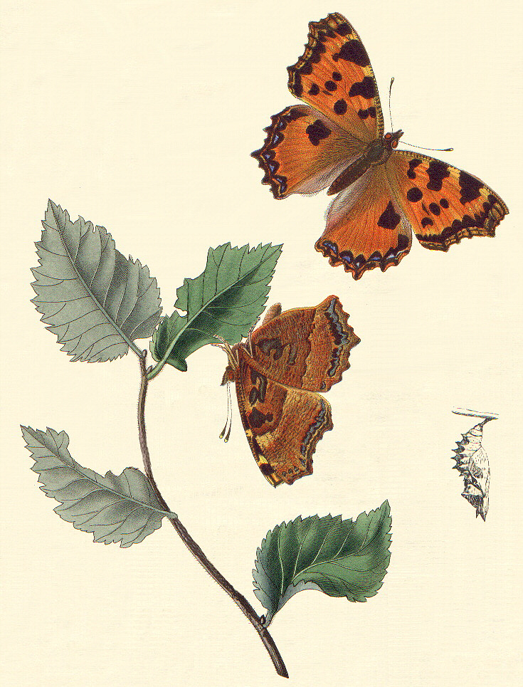 Nymphalis polychloros